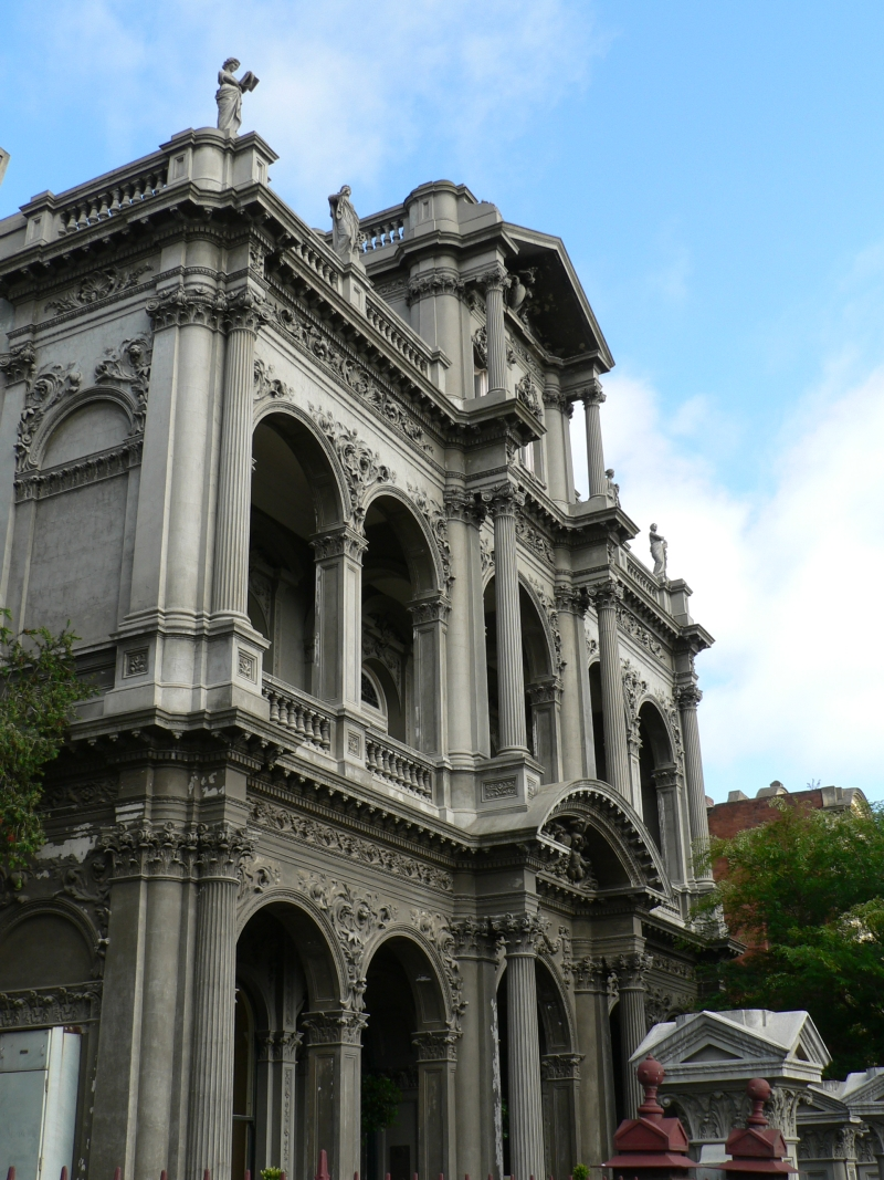 Medley Hall facade. Drummond Street, Carlton. Victoria.